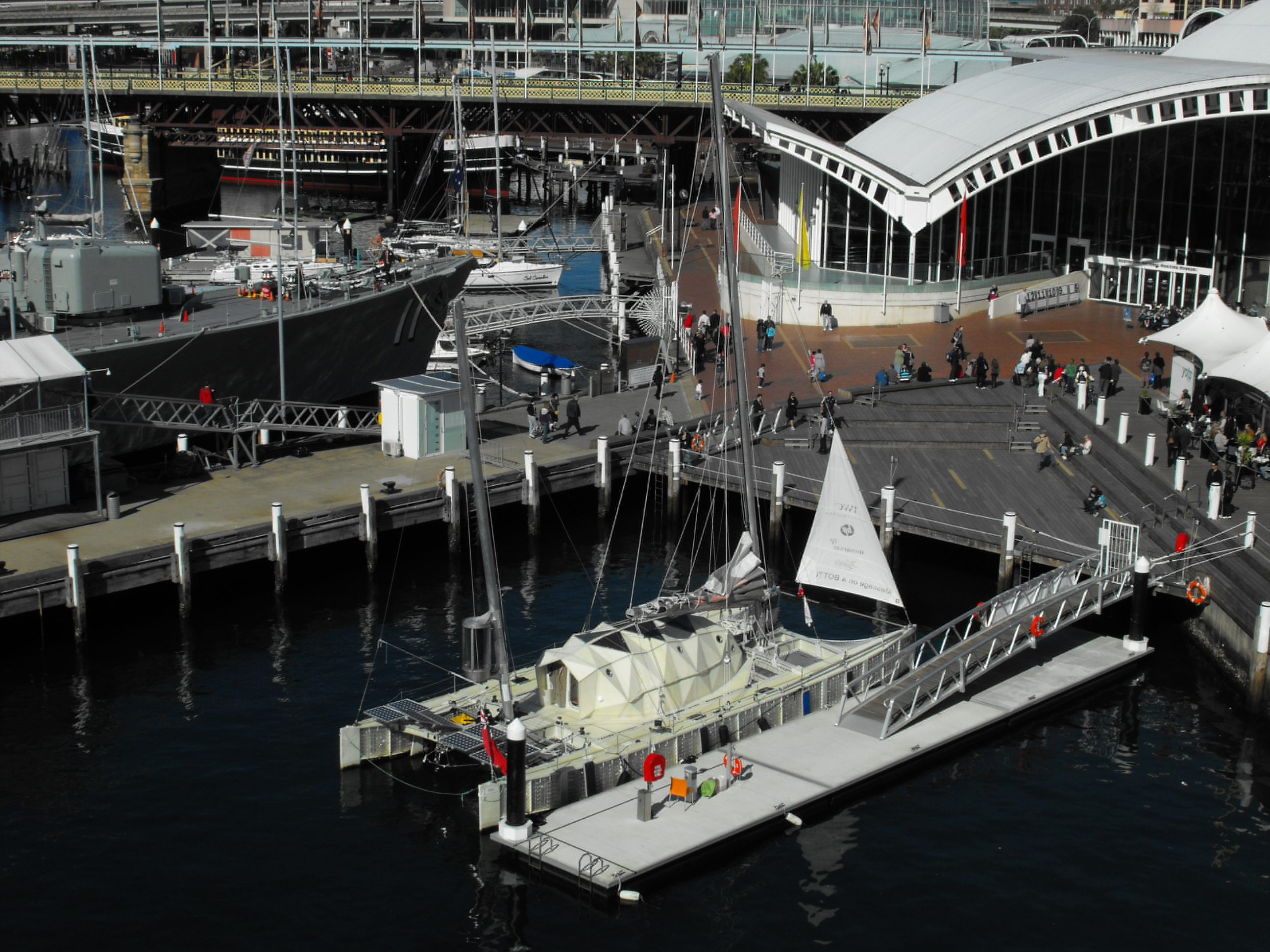 Looking down on the catamaran Plastiki, docked at the Australian National Maritime Museum